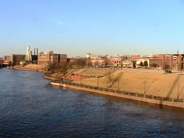 A view of the Chattahoochee Riverwalk from the Dillingham Street Bridge taken by G.N. Deloach.